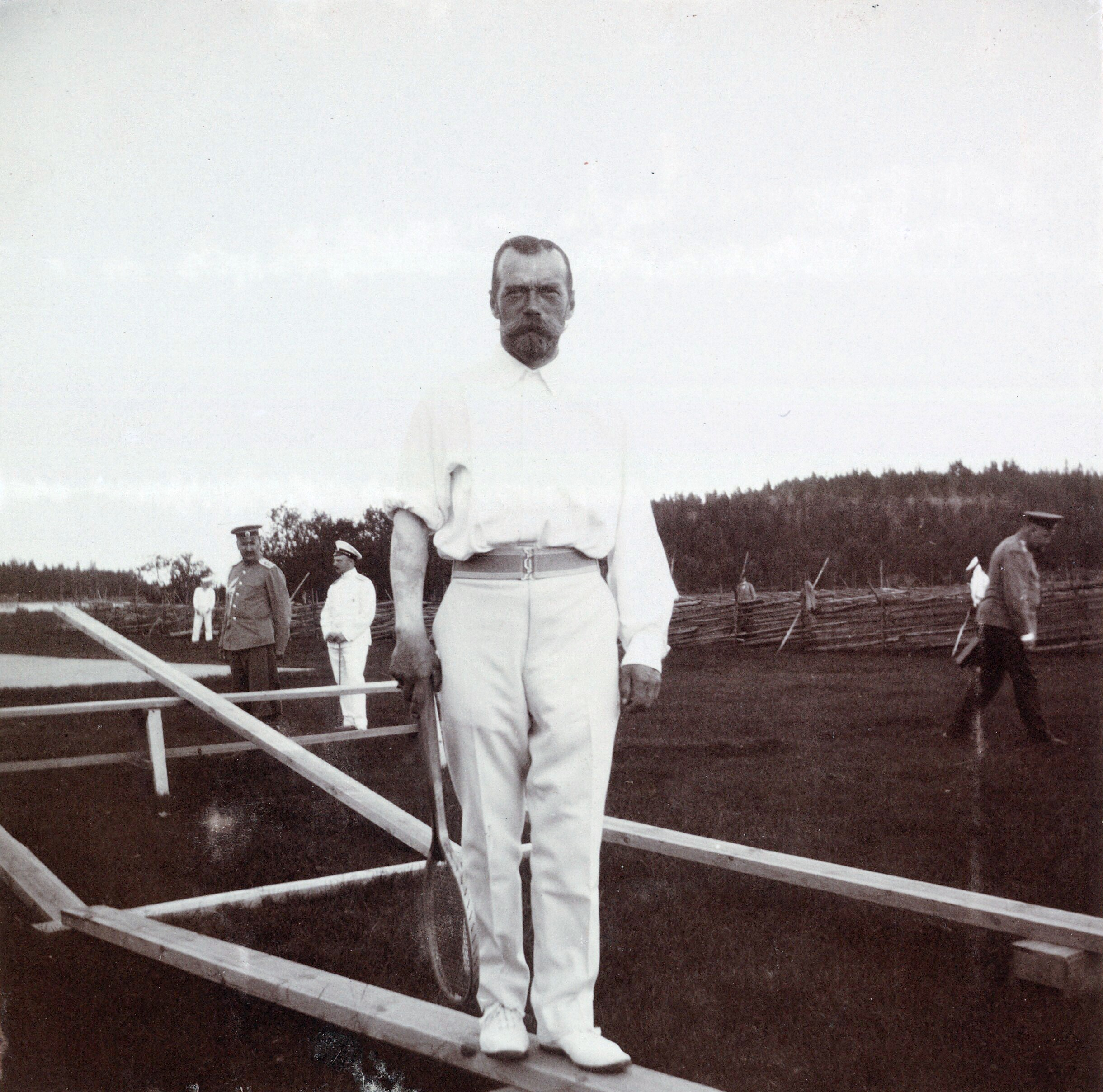 Nicholas II of Russia. C. 1910-s. Tattoo of chinese dragon he made in 1891 in Japan is hardly visible on his right forearm.